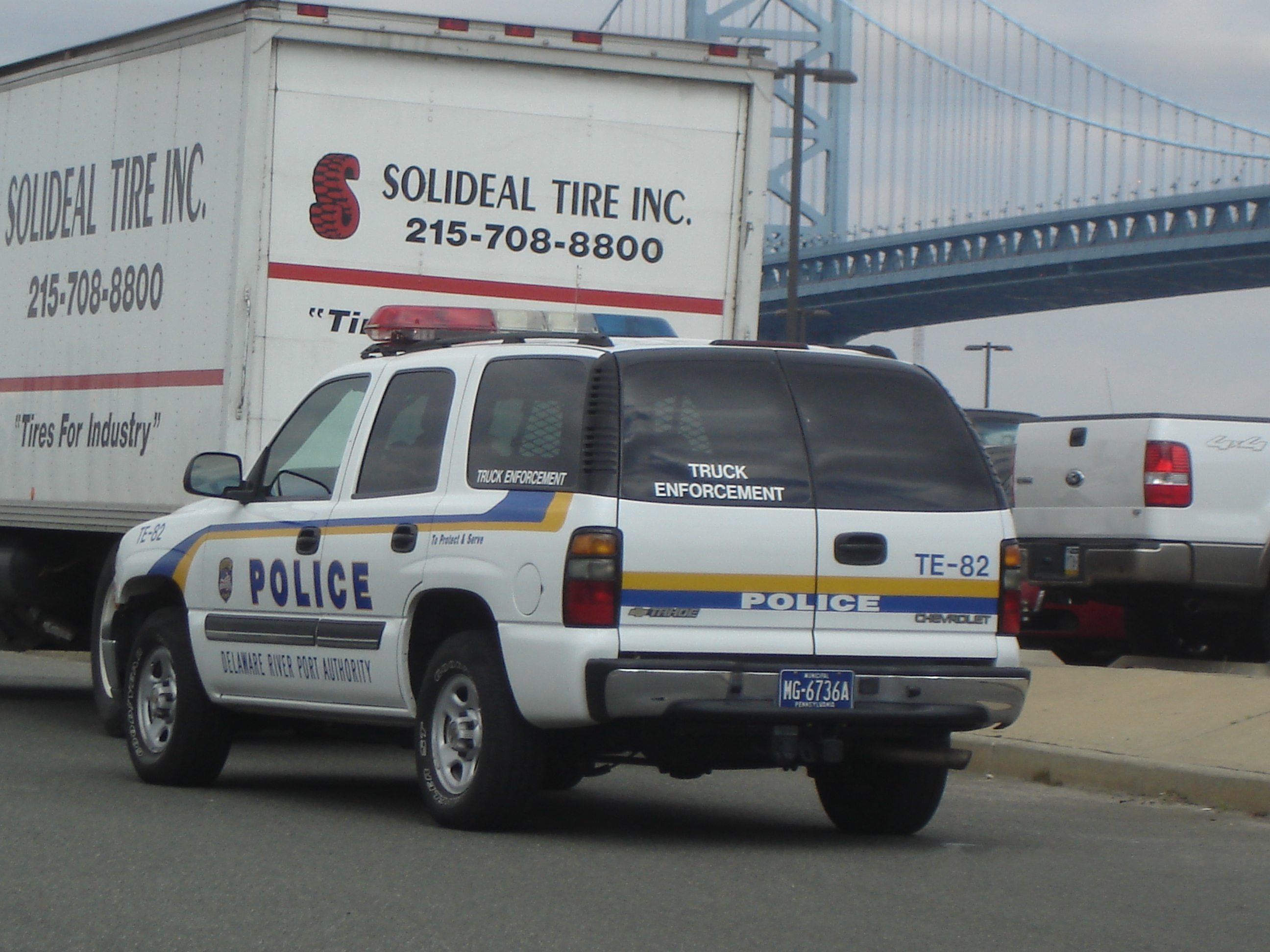 Delaware River Port Authority Chevrolet Tahoe in Camden